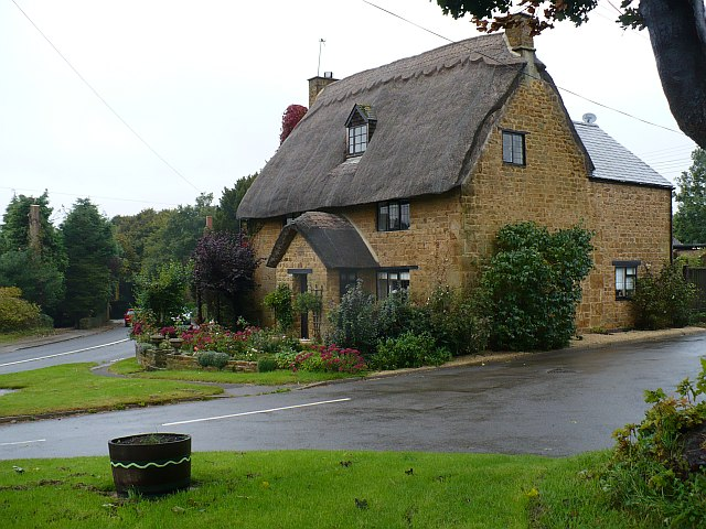 Ivy Cottage, Stratford Road, Drayton, Cherwell District, Oxfordshire